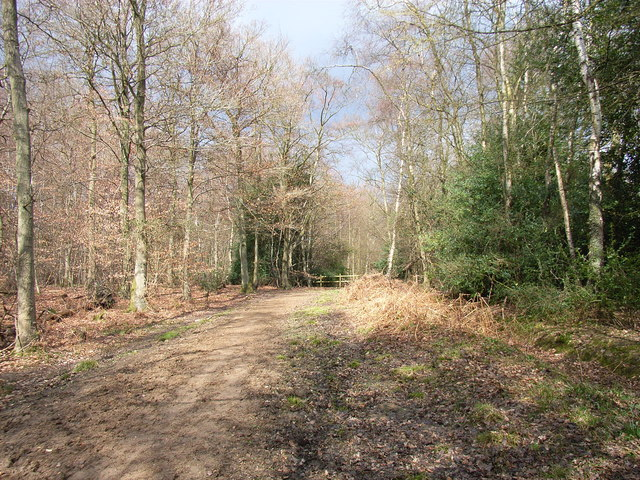 Hodgemoor Wood. The wood is owned by the Forestry Commission. This is the footpath at the eastern end.